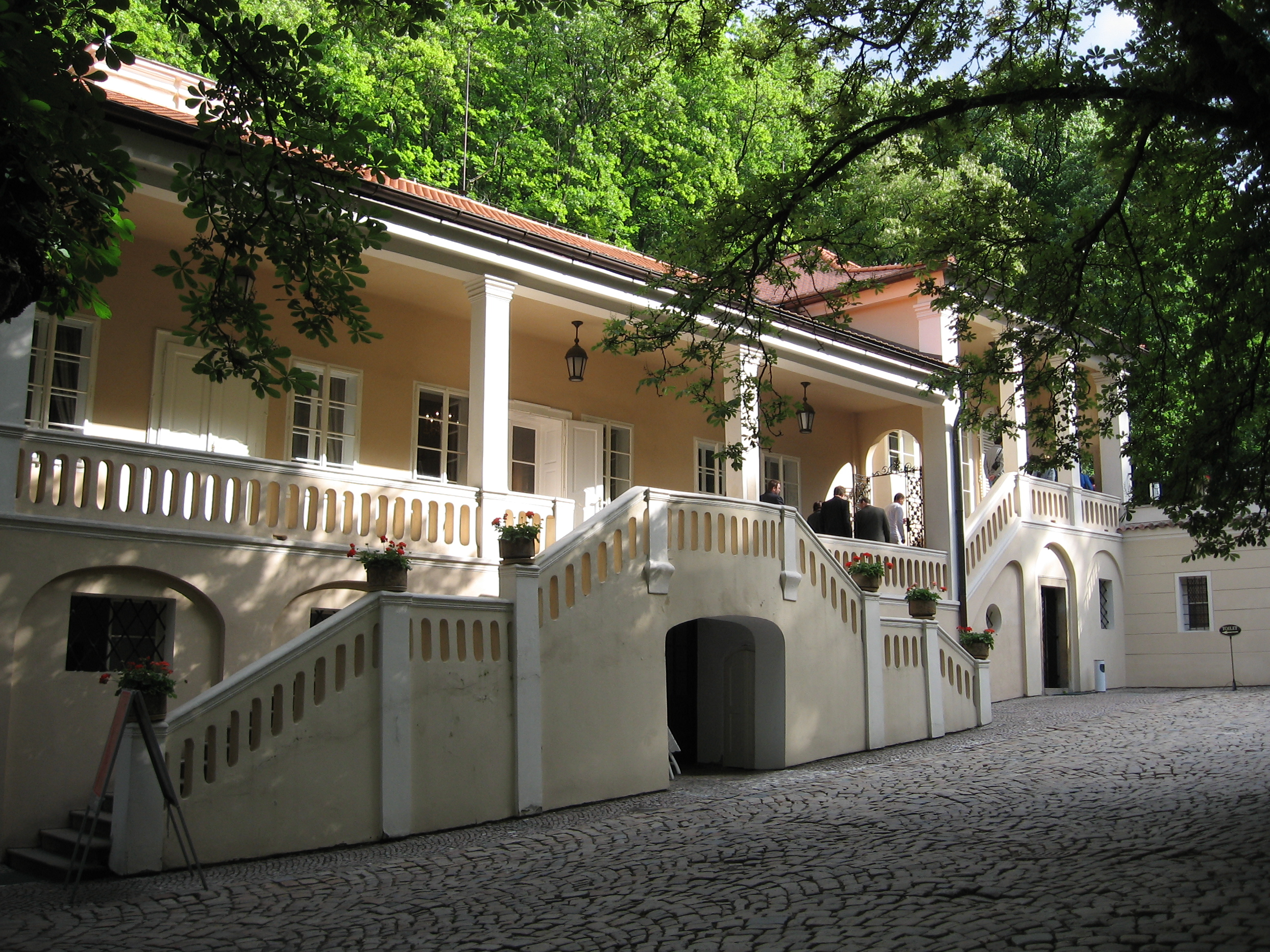 Villa Bertramka in Prague-Smíchov, Czech Republic.